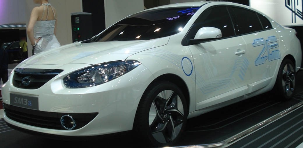 Renault Samsung SM3 Z.E.